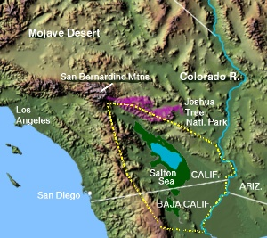 The Colorado Desert (within yellow dashed-line) — in Southern California (U.S.) and Baja California State (Mexico). A ecosystem in the western Sonoran Desert ecoregion, in the rain shadow of the northern Peninsular Ranges. Joshua Tree National Park (pink) shown at the ecotone of the Colorado ('low desert') and Mojave Desert ('high desert').